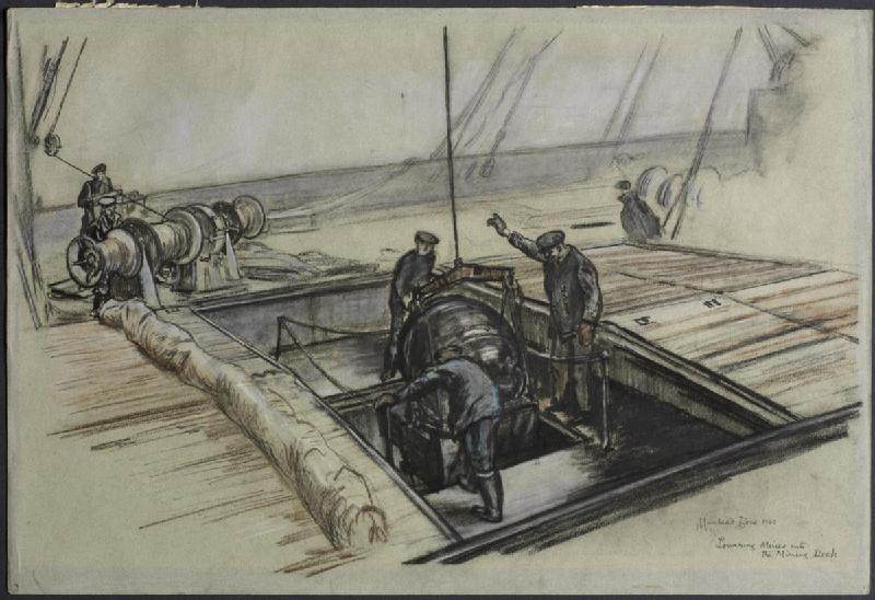 A group of sailors lower a large mine through a hole in the surface of a ships deck